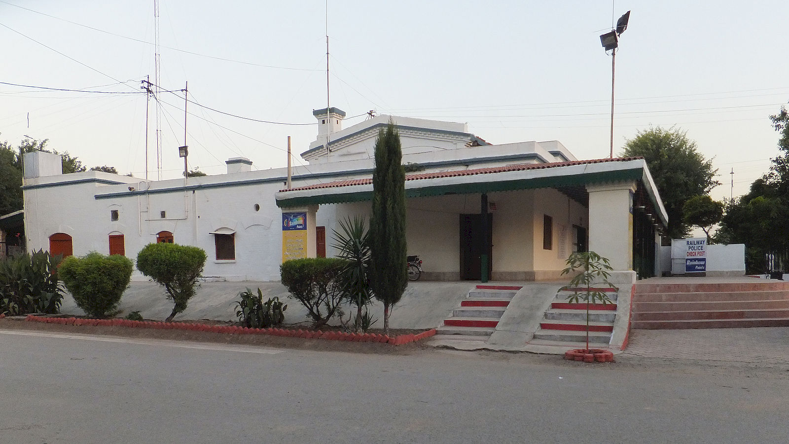 Chaklala railway station main building from outside